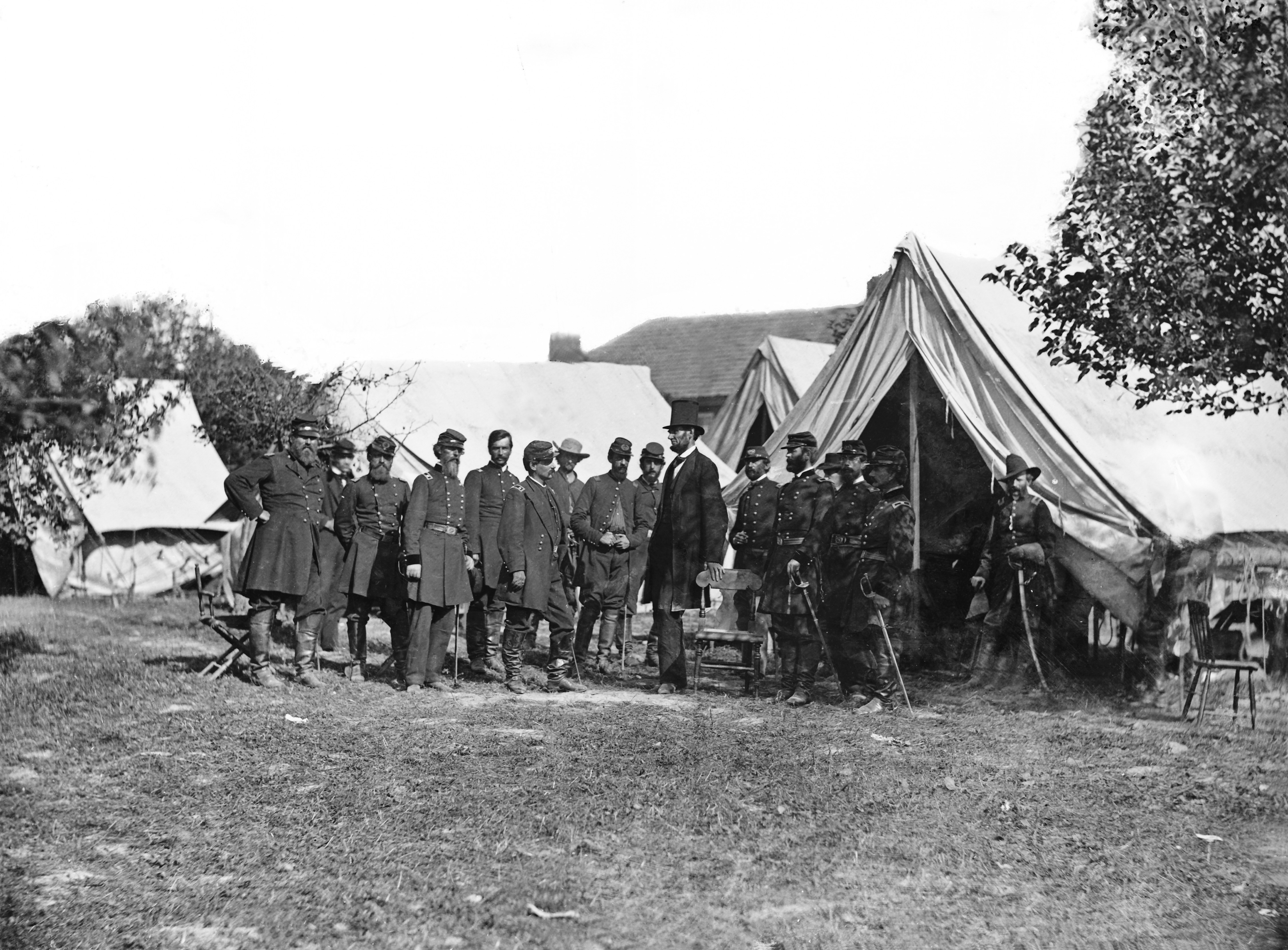 Antietam, Md. President Lincoln with Gen. George B. McClellan and group of officers SUMMARY: Photograph from the main eastern theater of the war, Battle of Antietam, September–October 1862. 1. Col. Delos B. Sackett, I.G. 2. Capt. George Monteith. 3. Lt. Col. Nelson B. Sweitzer. 4. Gen. George W. Morell. 5. Col. Alexander S. Webb, Chief of Staff, 5th Corps. 6. Gen. George B. McClellan. 7. Scout Adams. 8. Dr. Jonathan Letterman, Army Medical Director. 9. Unknown. 10. President Lincoln. 11. Gen. Henry J. Hunt. 12. Gen. Fitz-John Porter. 13. Unknown. 14. Col. Frederick T. Locke, A.A.G. 15. Gen. Andrew A. Humphreys. 16. Capt. George Armstrong Custer. MEDIUM: 1 negative : glass, wet collodion. NOTES: Civil War photographs, 1861–1865 / compiled by Hirst D. Milhollen and Donald H. Mugridge, Washington, D.C. : Library of Congress, 1977. No. 0148 Title from Milhollen and Mugridge. Additional information from Katz, D. Mark. Witness to an era: the life and photographs of Alexander Gardner, 1991. Forms part of Civil War glass negative collection (Library of Congress). Published in: Viewpoints; a selection from the pictorial collections of the Library of Congress ... Washington : Library of Congress ..., 1975, no. 75.